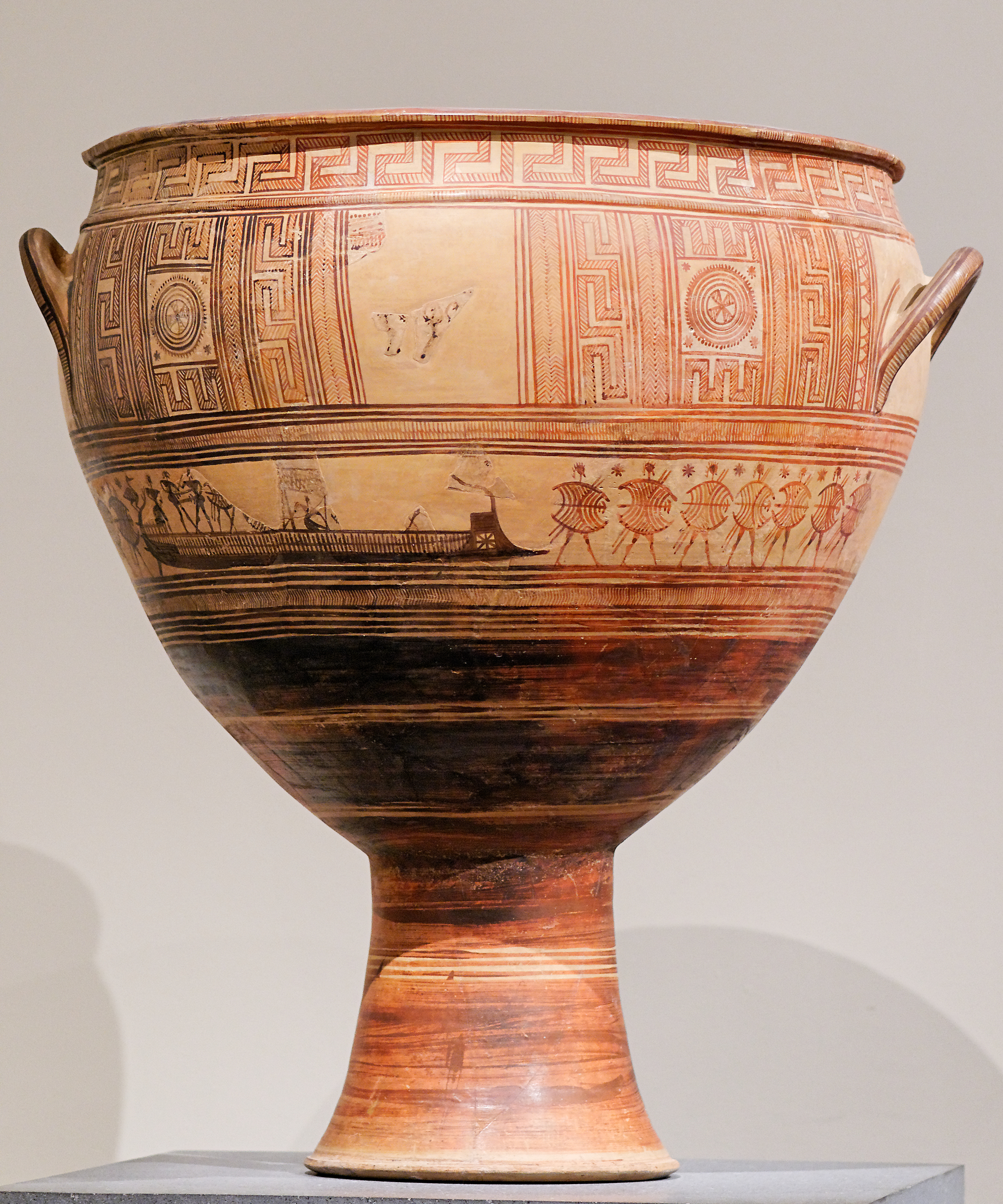 A prothesis scene and ships.